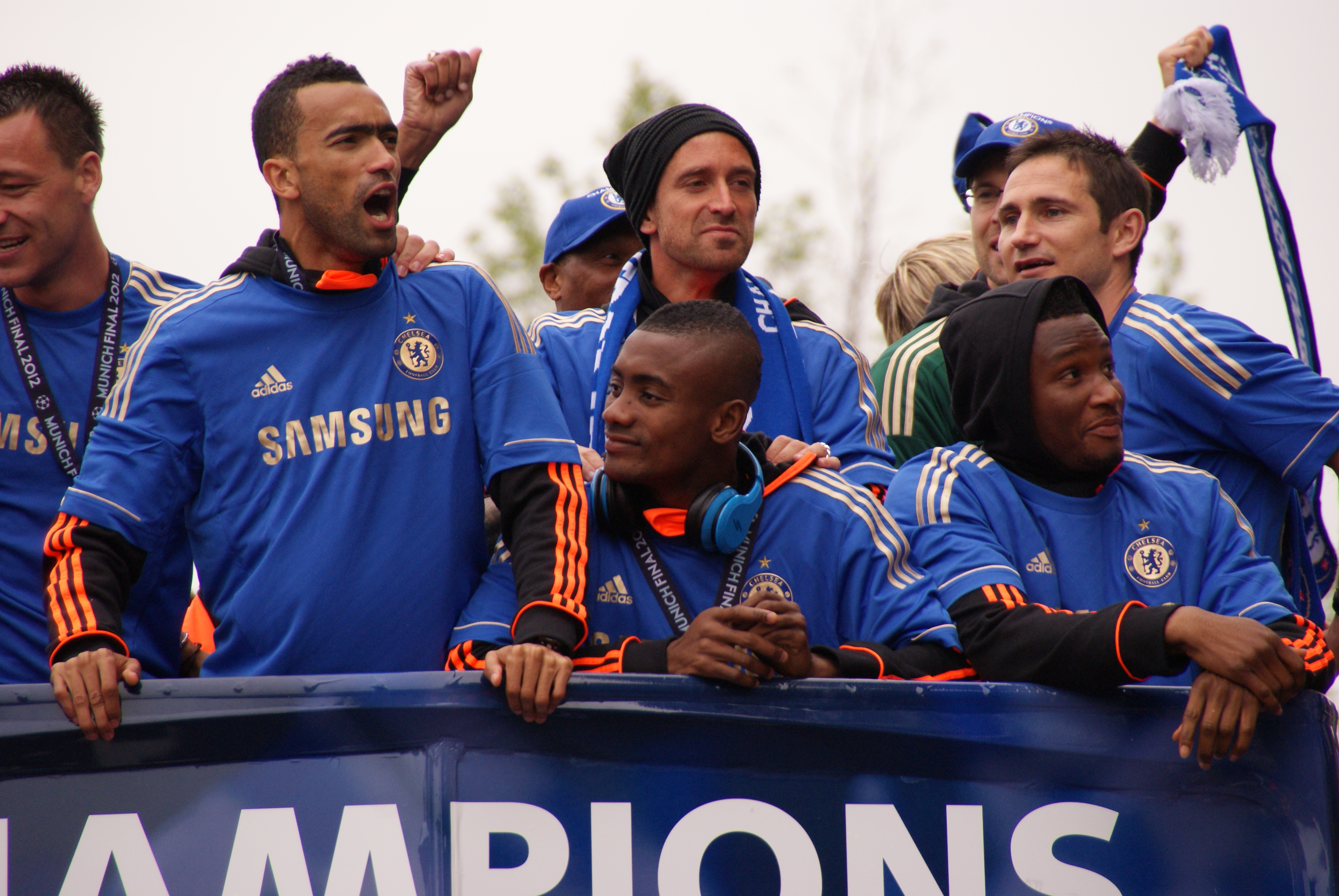 This photo was taken on Sunday 20th May 2012 during the Chelsea Football Club Parade following Chelsea's victory in the European Champions League Final.